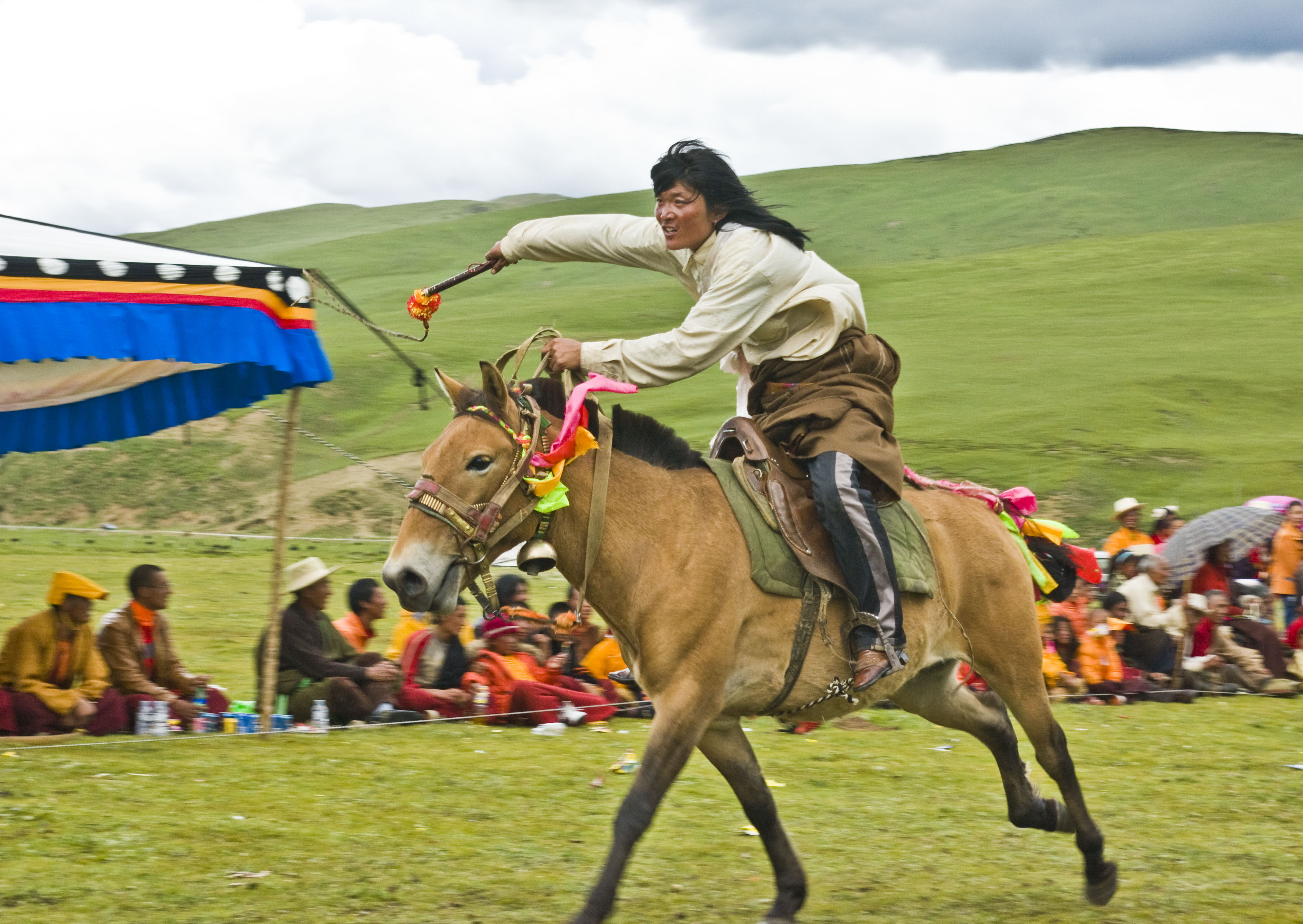 A horse riding in the Kham (in a horse festival)